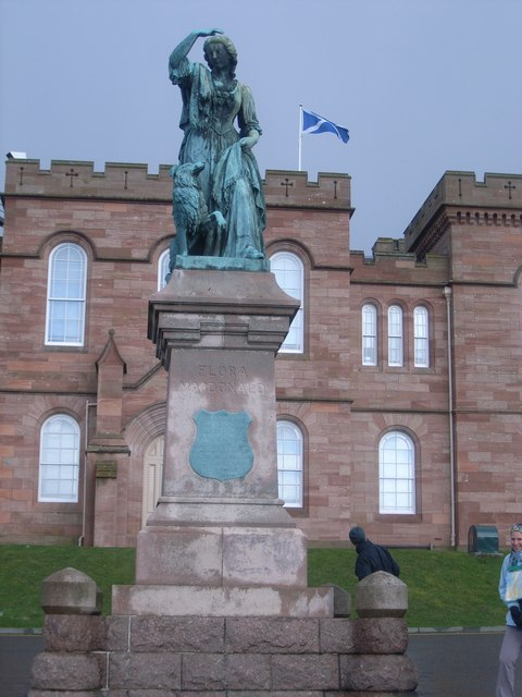 Statue of Flora MacDonald I'm not sure is she had anything to do with margerine?